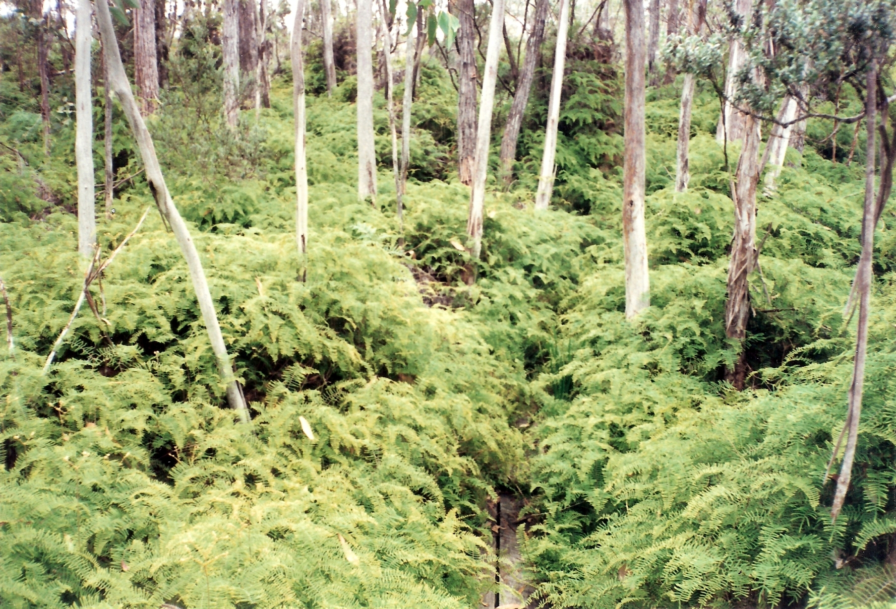 Walking track showing coral ferns and snow gums. Path is marked with a boardwalk in case ground is snow covered.